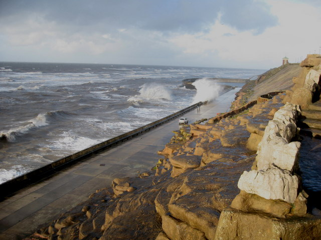 North Shore Blackpool in Winter With winds of over 70mph, and high tides on the day this picture was taken, the promenade is not the place to be if you want to keep dry. Gales and high tide danger shut Prom